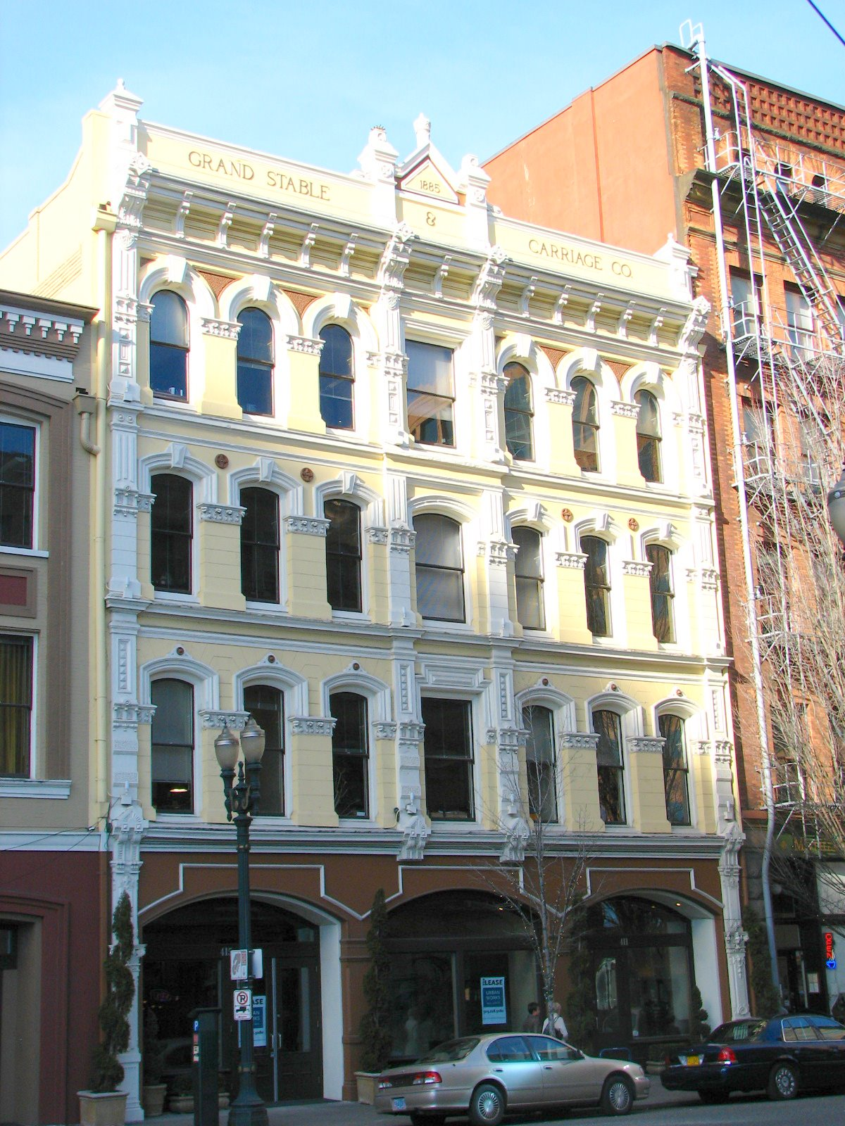 The historic Grand Stable and Carriage Building (built 1887), by Warren Heywood Williams located at 411-415 Southwest 2nd Avenue in Portland, Oregon, United States, is listed on the US National Register of Historic Places, along with the adjacent (to the left in this image) commercial building.